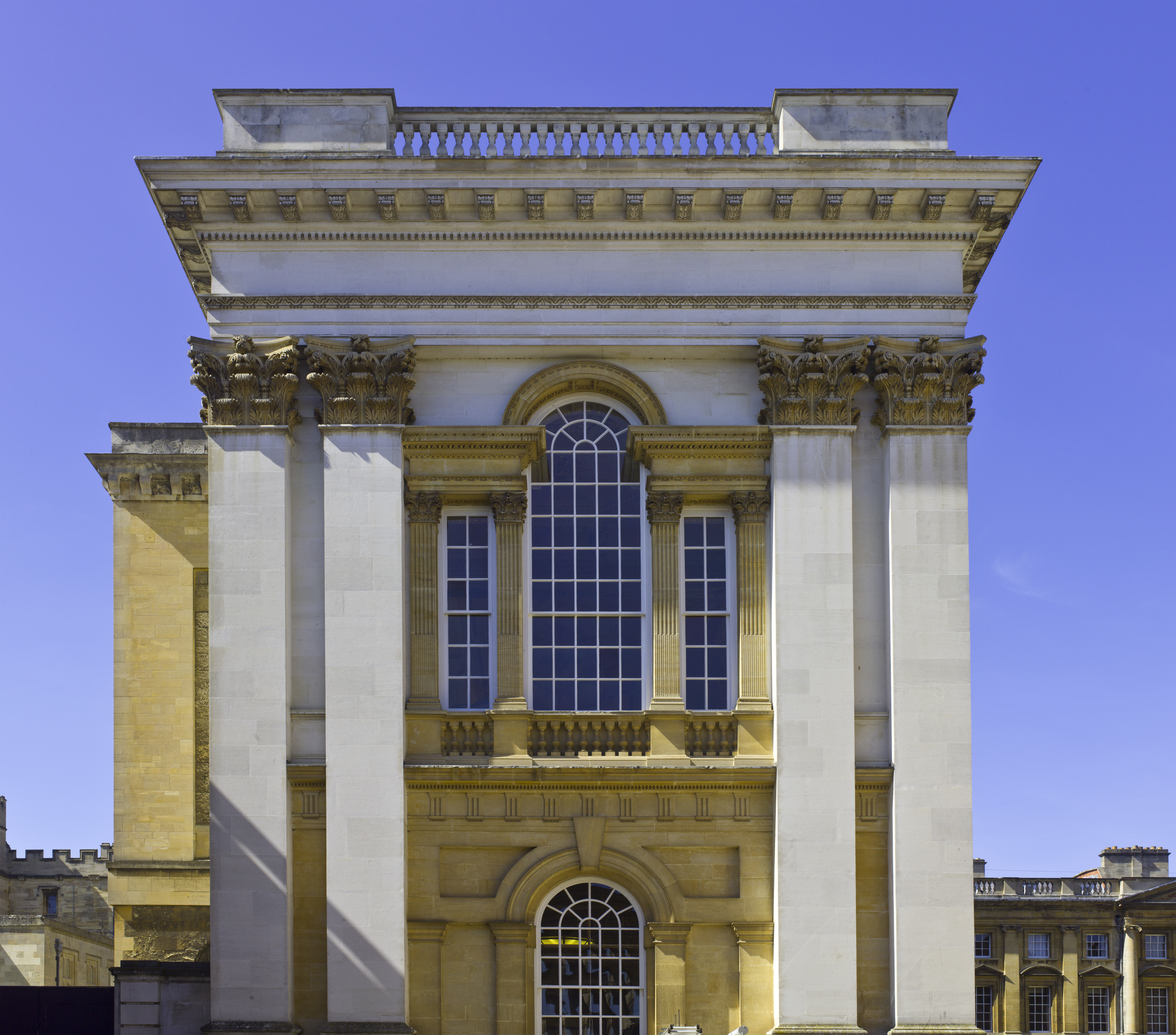 Christ Church College (Oxford University) founded in 1546. Side-view of Christ Church Library.